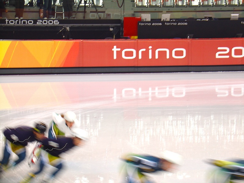 Shorttrack racers in Torino 2006